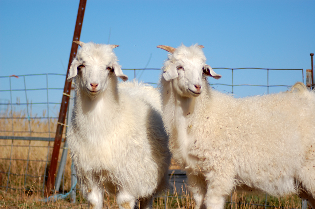 Australian Cashmere Goats